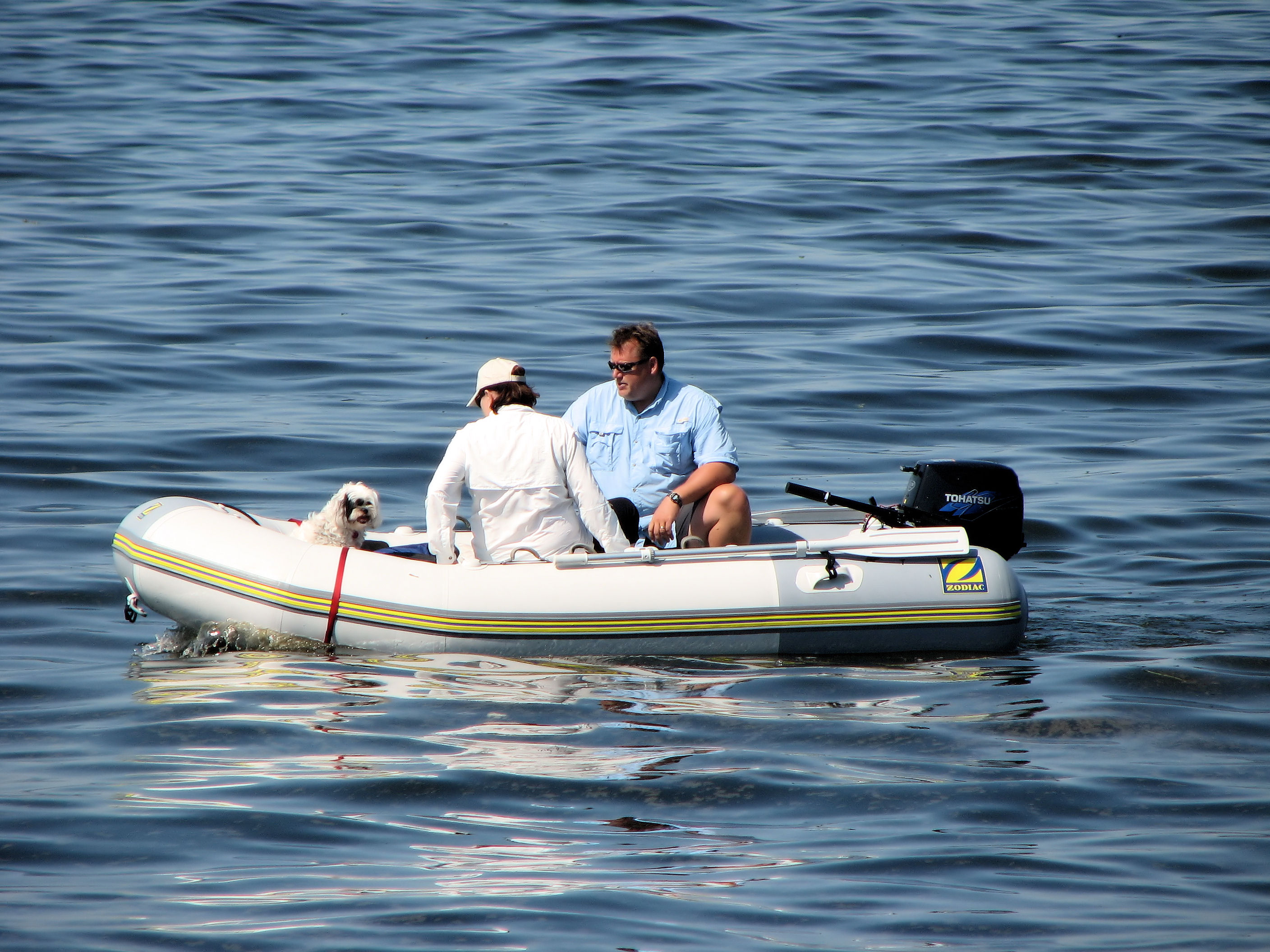 A Zodiac boat in the water.